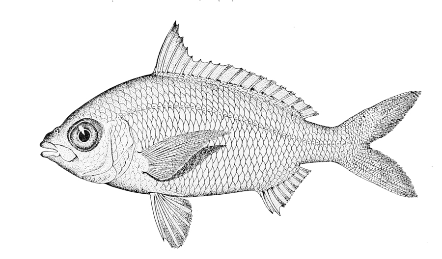 Gerres baconensis